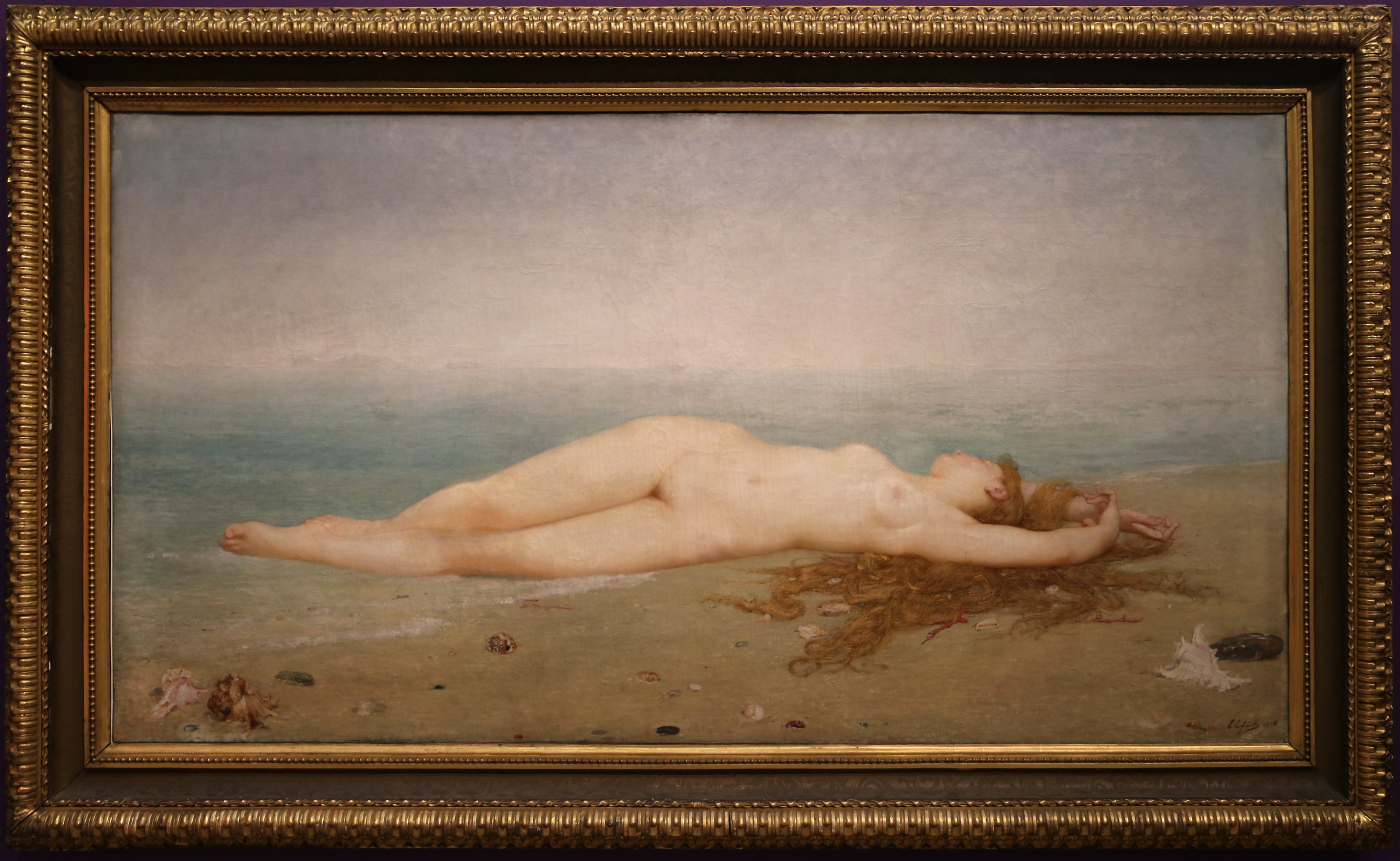 Paintings in the Musée des Beaux-Arts de Tournai